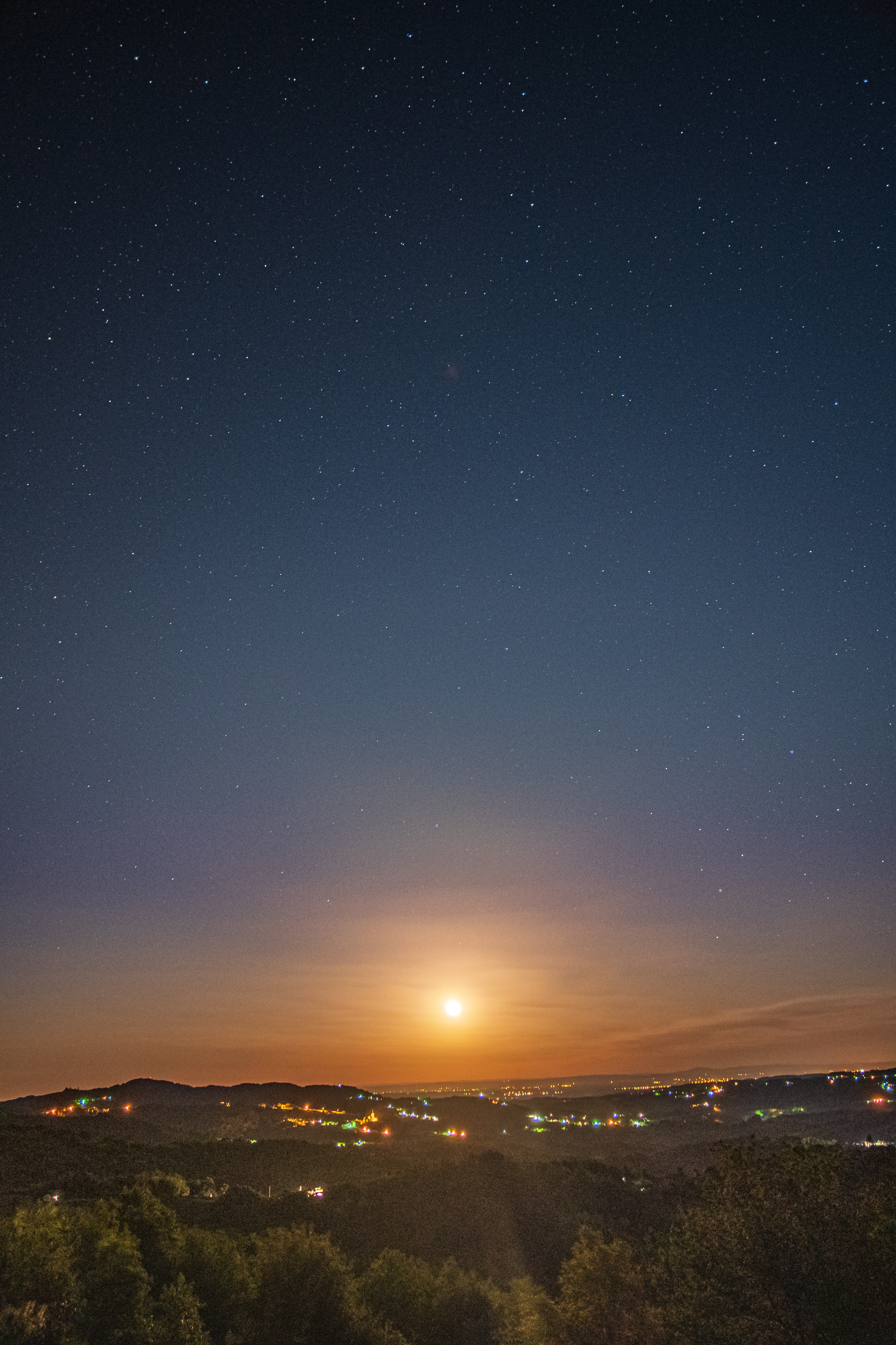 Full Moon rises over Bela krajina in southeastern Slovenia.